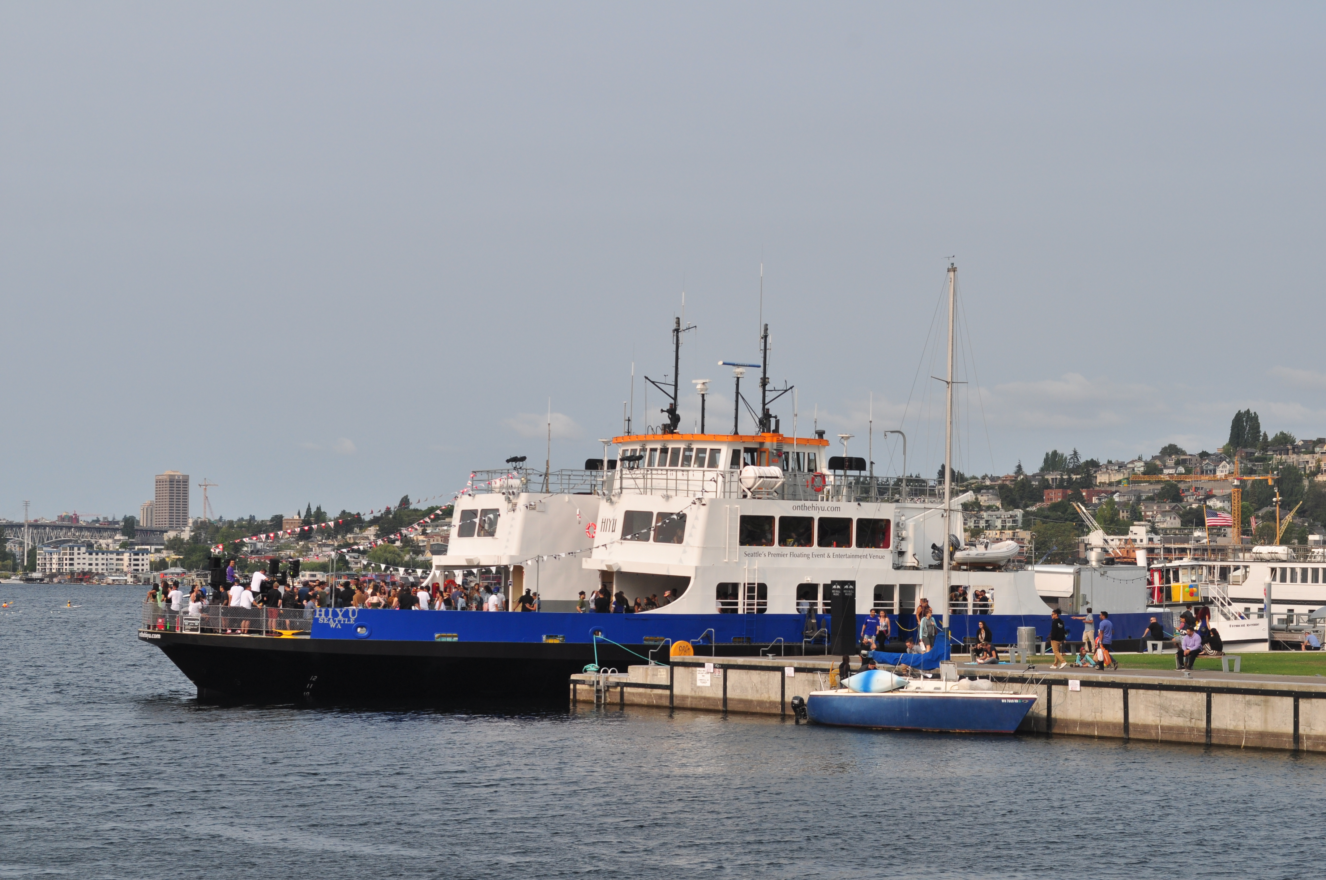 Former Washington State Ferries vessel Hiyu, being used as a party boat, letting off its passengers at Historic Ships Wharf in Lake Union Park, South Lake Union, Seattle, Washington, USA.